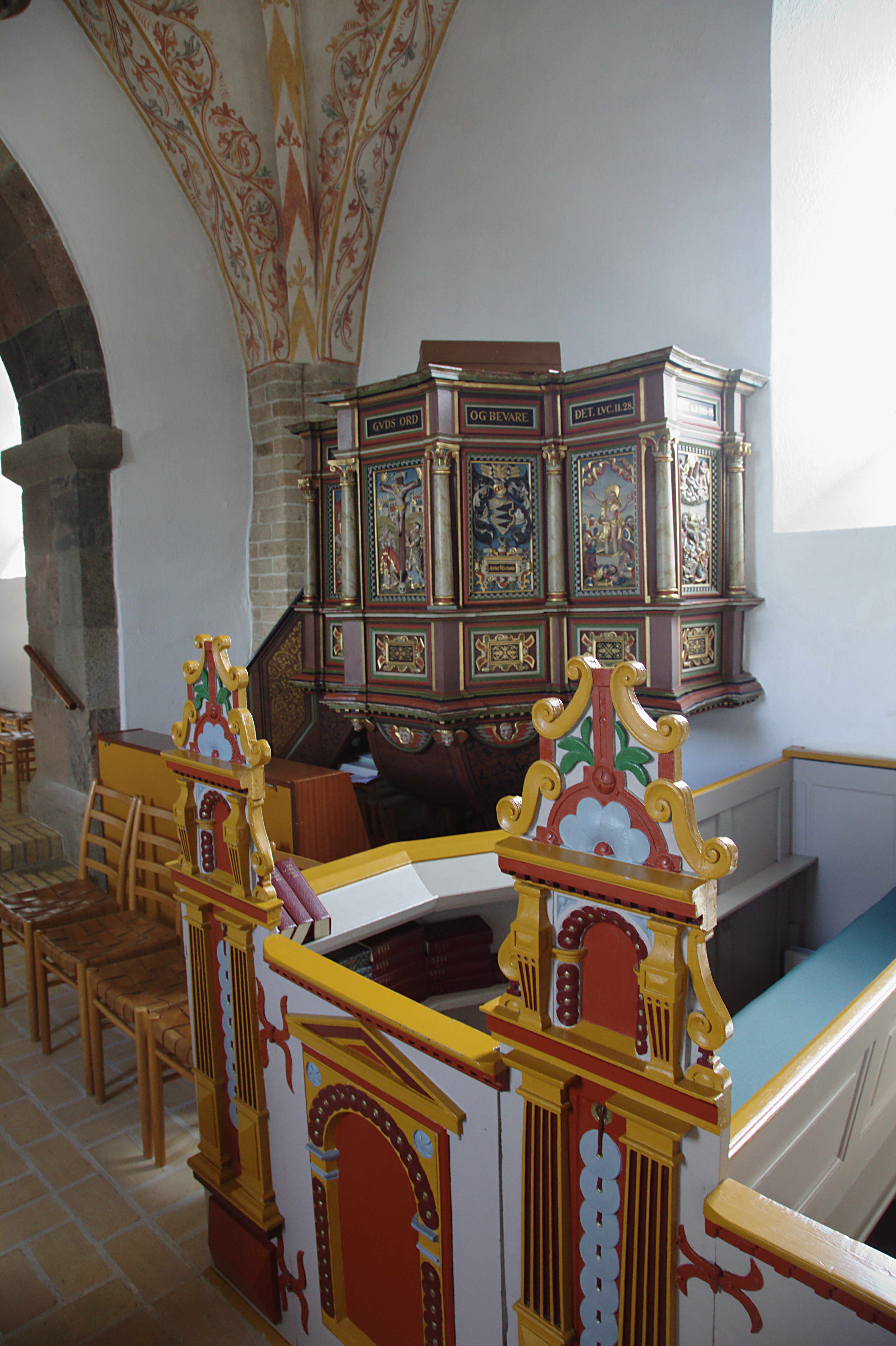 Pulpit in Sulsted Kirke just north of Aalborg, Denmark